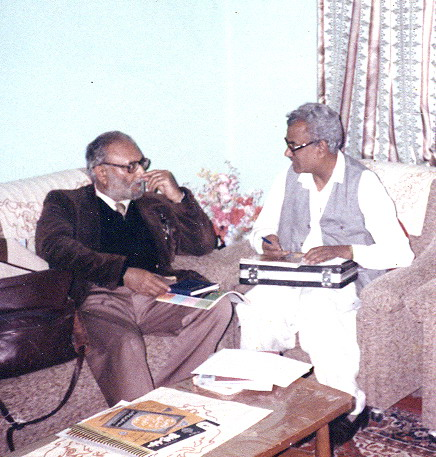 Qasim with abdus salam